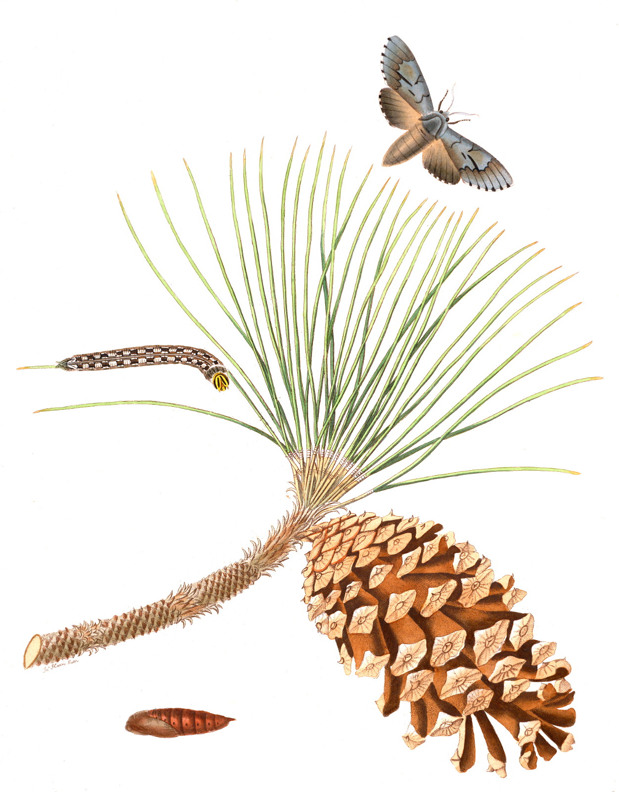 Pine Sphinx , Lapara coniferarum, and Longleaf Pine, Pinus palustris, hand-colored engraving